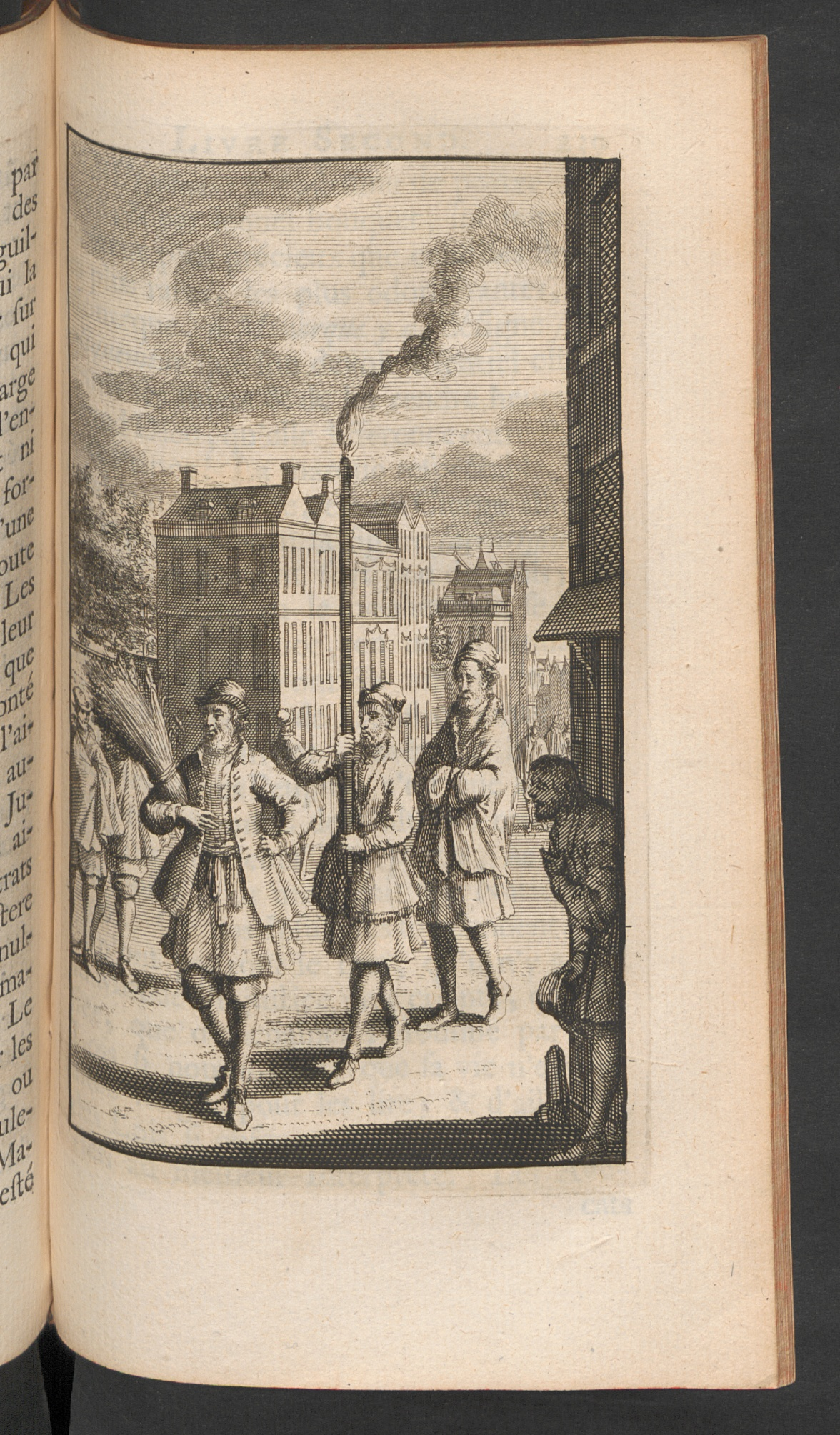 Engraving by François van Bleyswik for Th. More's Utopia translated in french by N. Gueudeville in 1715 (ETH-Bibliothek Zürich). This engraving (page 237) represents the Prince of Utopia, with his sheaf of wheat. Behind him, we can see an utopian citizen and an utopian priest.